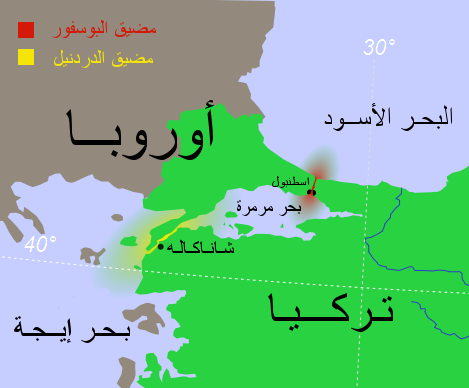 Disambiguation for Turkish Straits. Bosporus Strait Dardanelles Strait Licensing Modified from Image:Vertrag sevres otoman.svg, created by Thomas Steiner and translated by user:zakaria55.